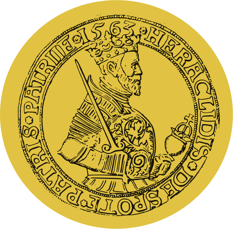 Effigy of Iacob Heraclid (Despot Vodă) on his 1563 Moldavian thaler. Based on outline in Enciclopedia României, 1938 ed., which is public domain.